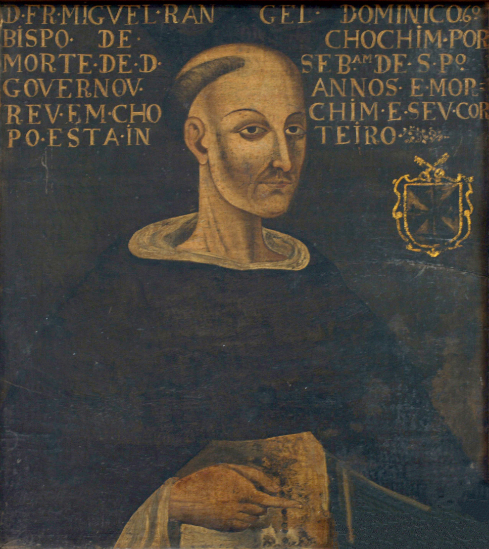 Miguel da Cruz Rangel (d. 1646), Bishop of Cochin